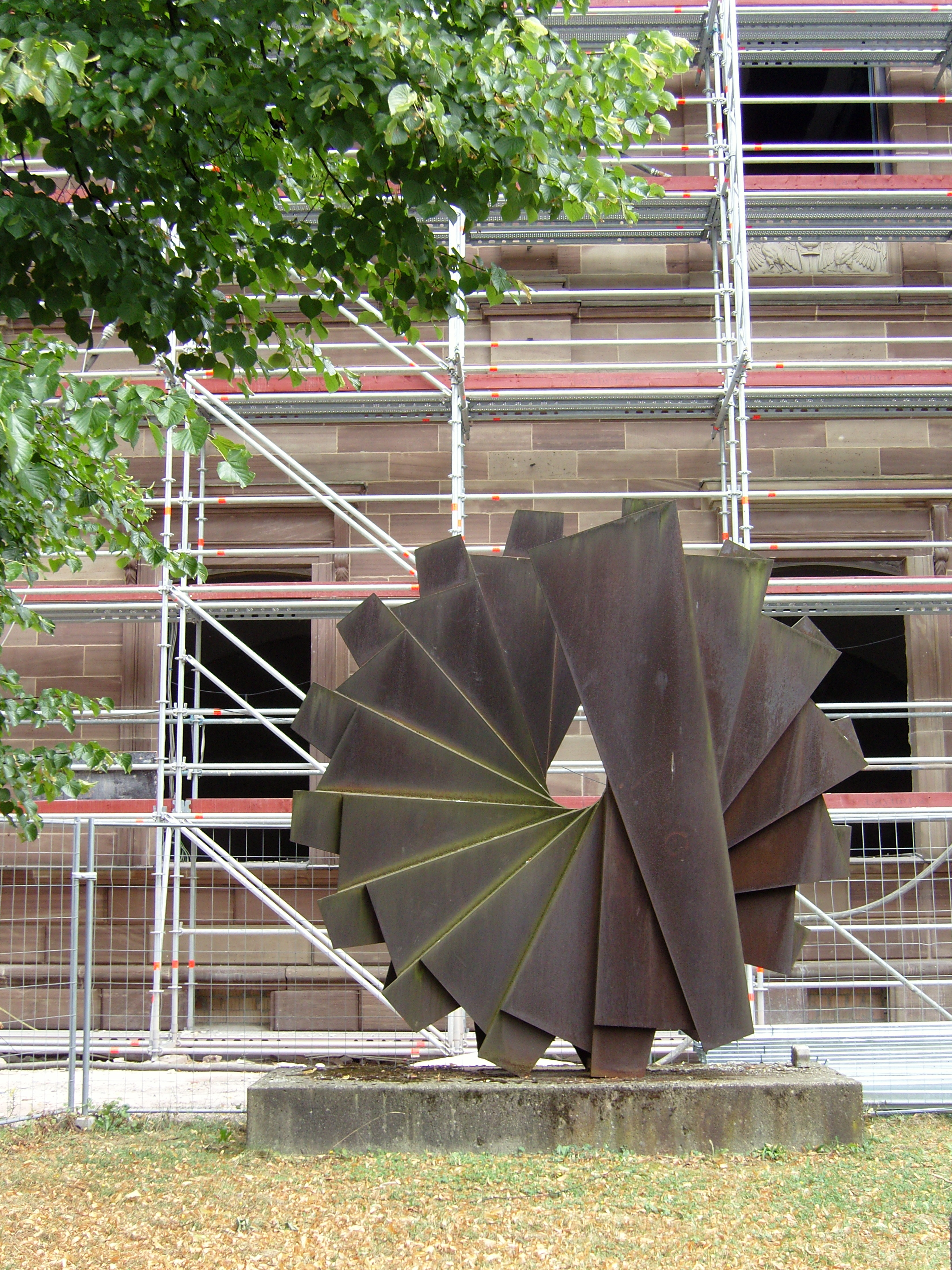 sculpture Aurora 1985 by Eberhard Fiebig in Kassel/Germany